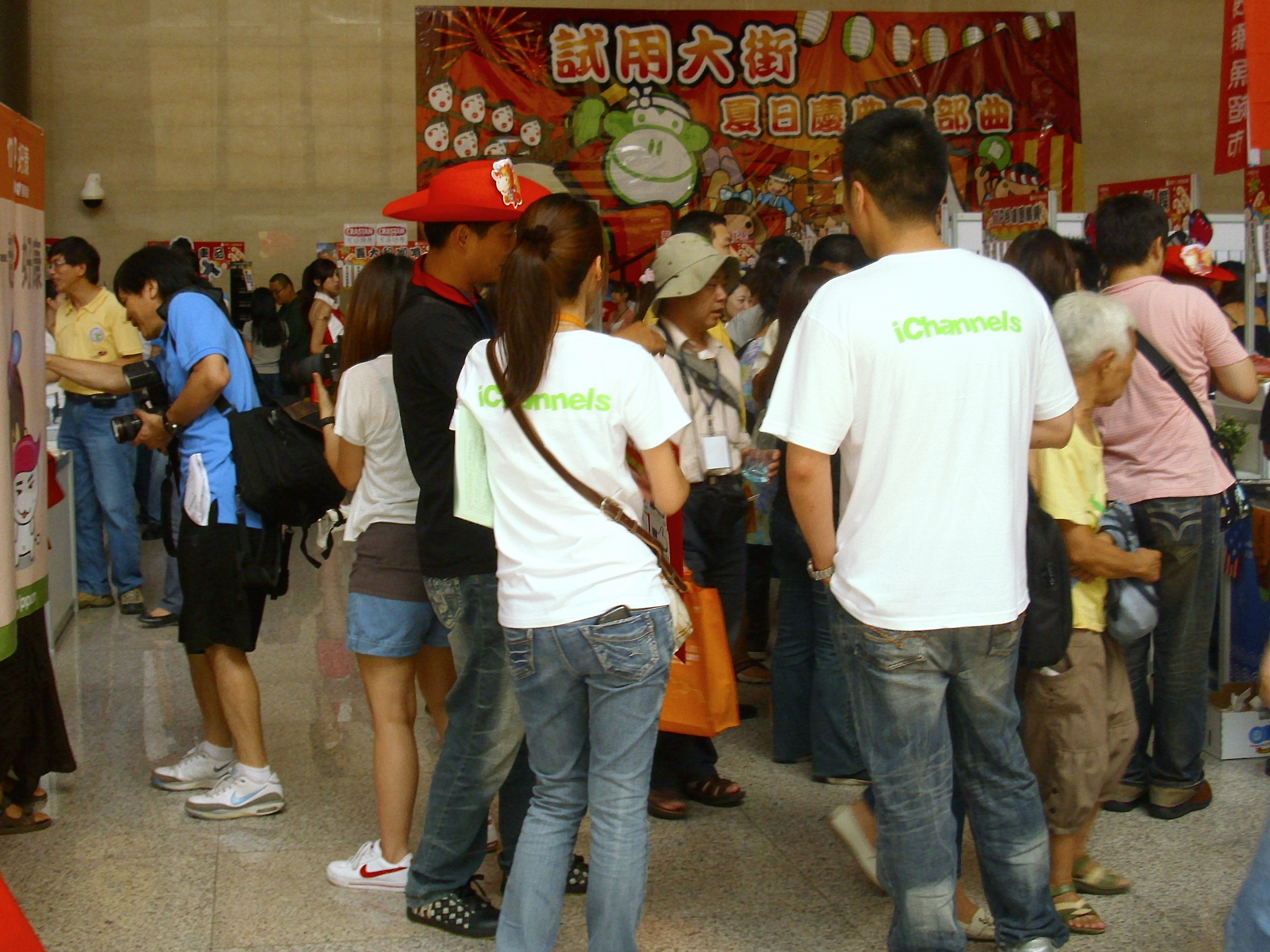 2011 III IDEAS Week: Blogger Top 100 - The Showcase.中文（台灣）: 2011年創新服務週：部落客百傑─周邊展示活動。